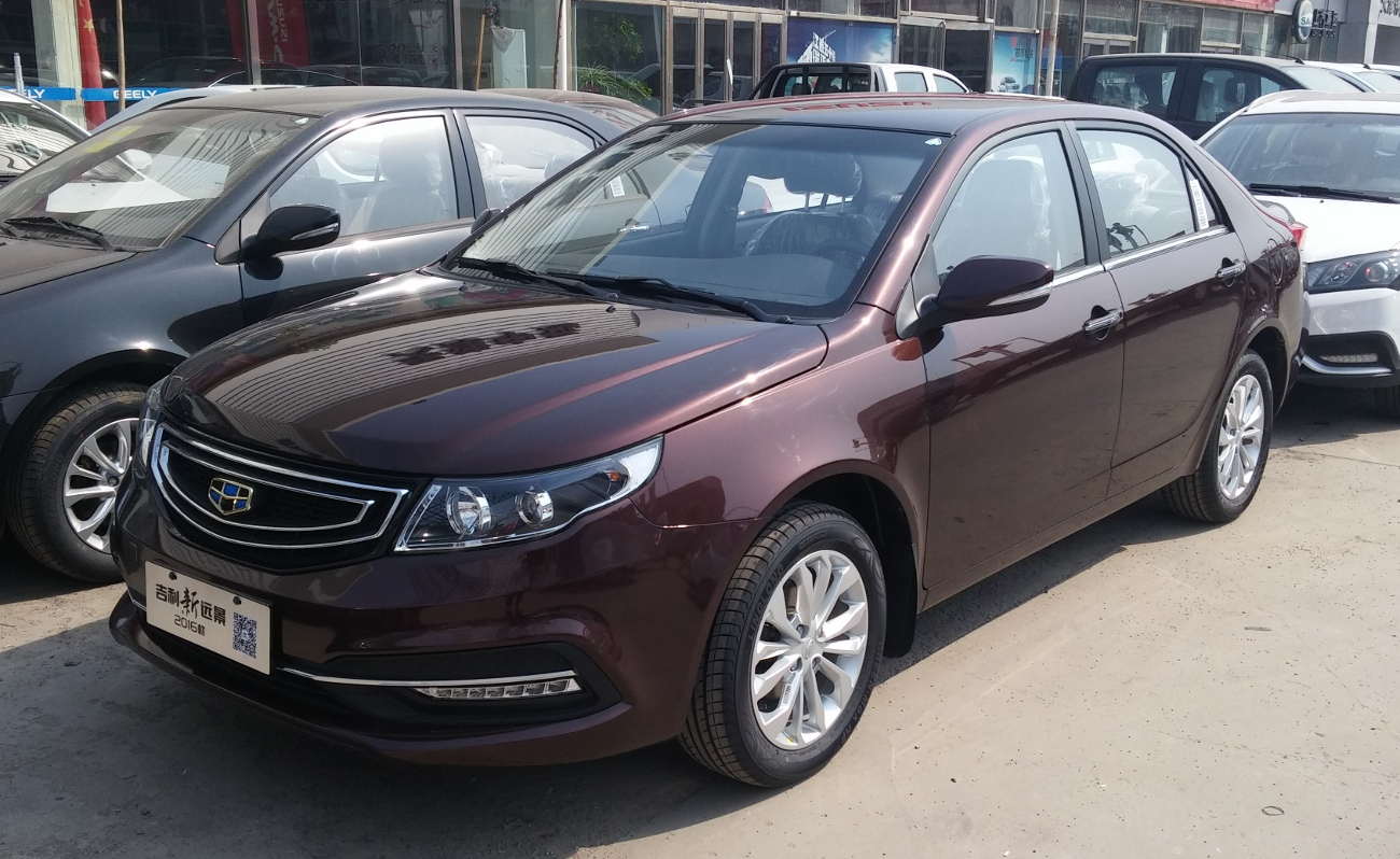 Geely Yuanjing II facelift photographed in Tianjin, China.